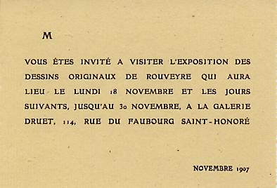 Catalog for the exposition of original drawings from Rouveyre at Eugène Druet´s gallery